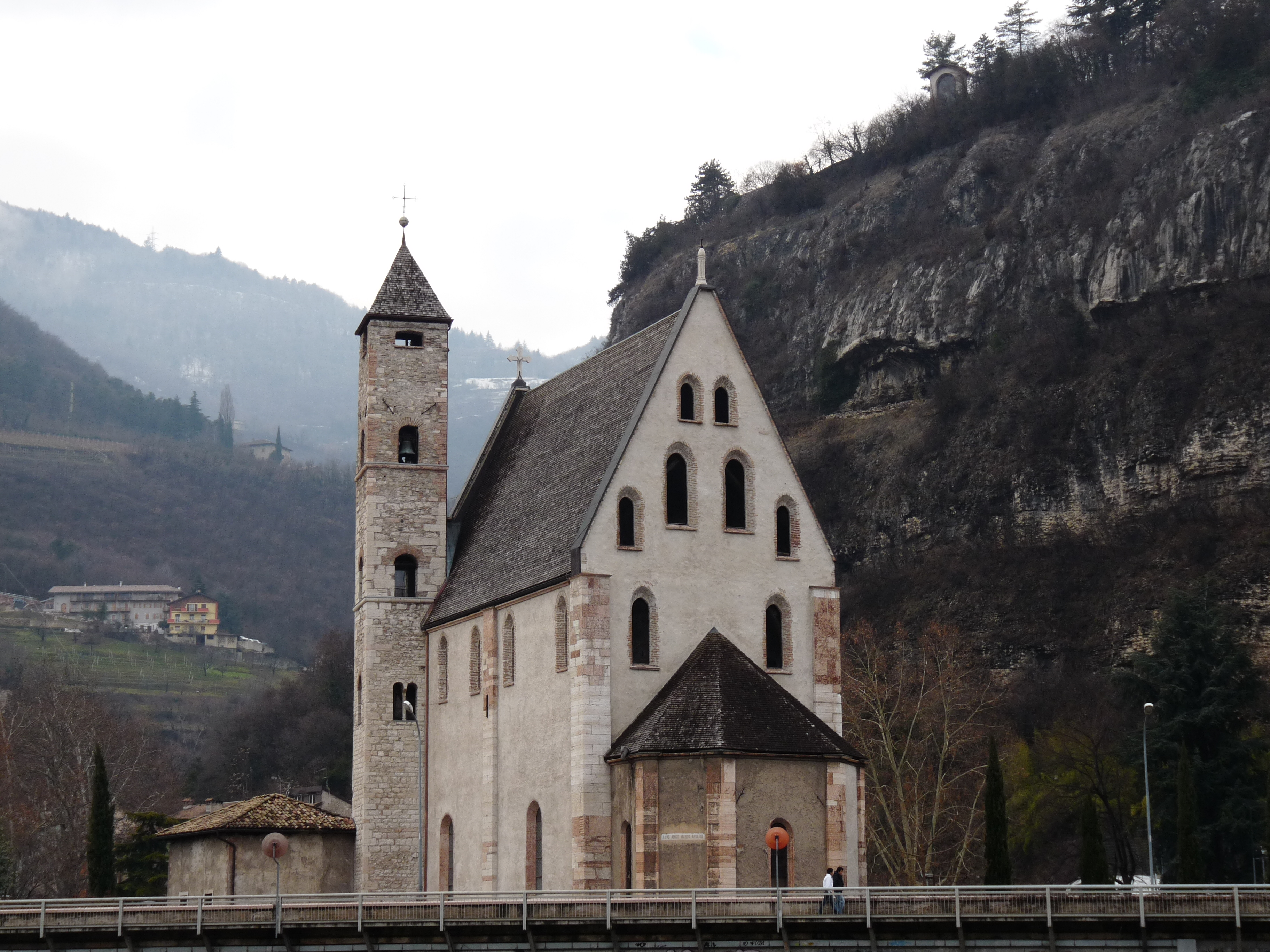 Trento (Italy): the Sant'Apollinare church from east